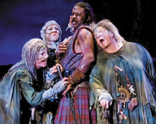 The witches (Jennifer Hunt, Suzanne Curtis, and Sonja Lanzener) surround Macbeth (Remi Sandri) in this 2004 Alabama Shakespeare Festival production of the Shakespeare masterpiece.